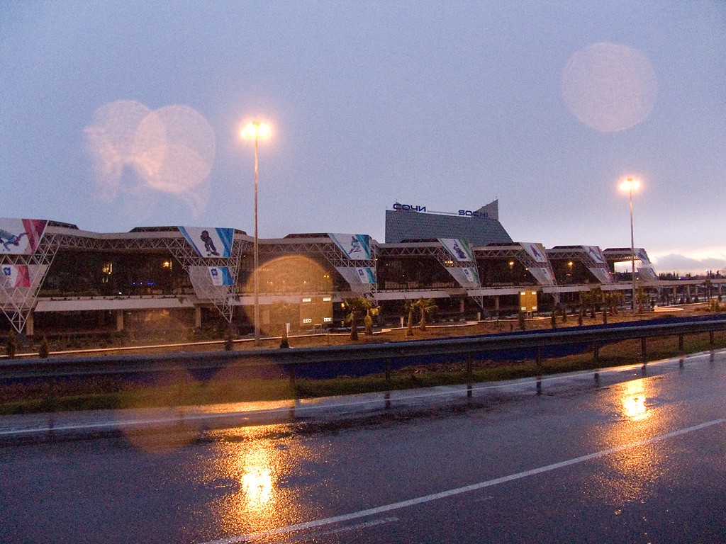 new airport in Sochi